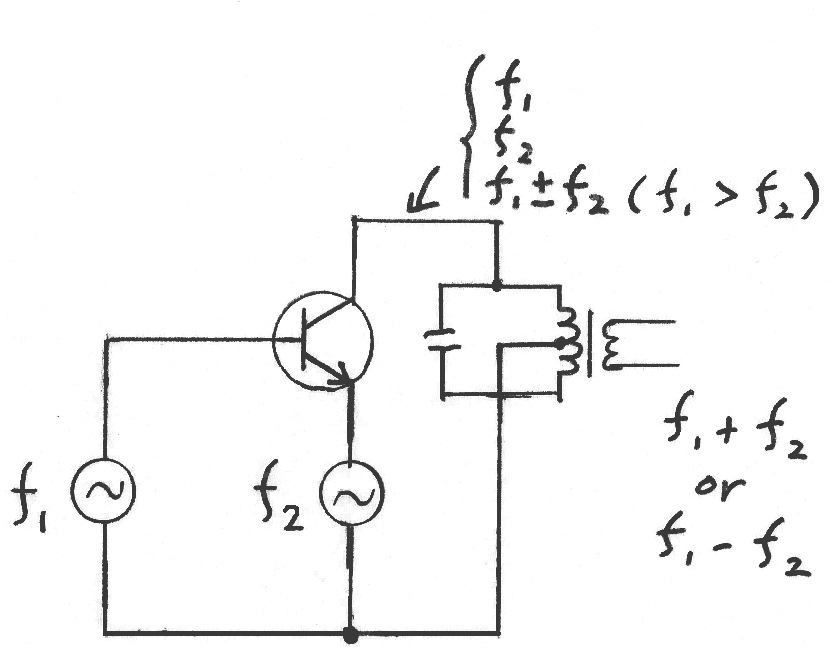 A frequency mixer circuit diagram (emitter injection-type).